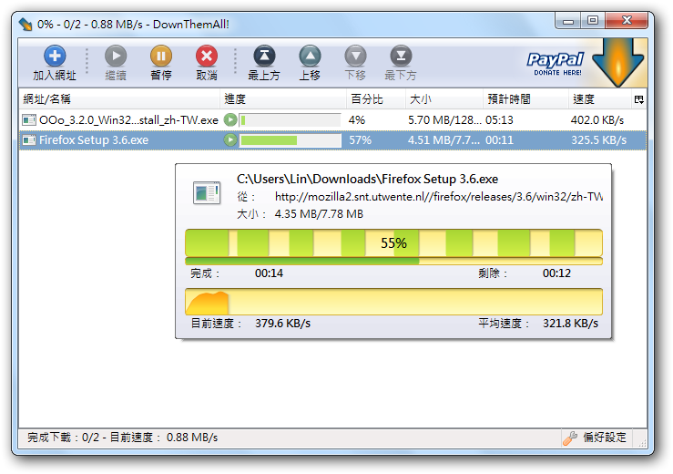 DownThemAll!, Windows, Firefox